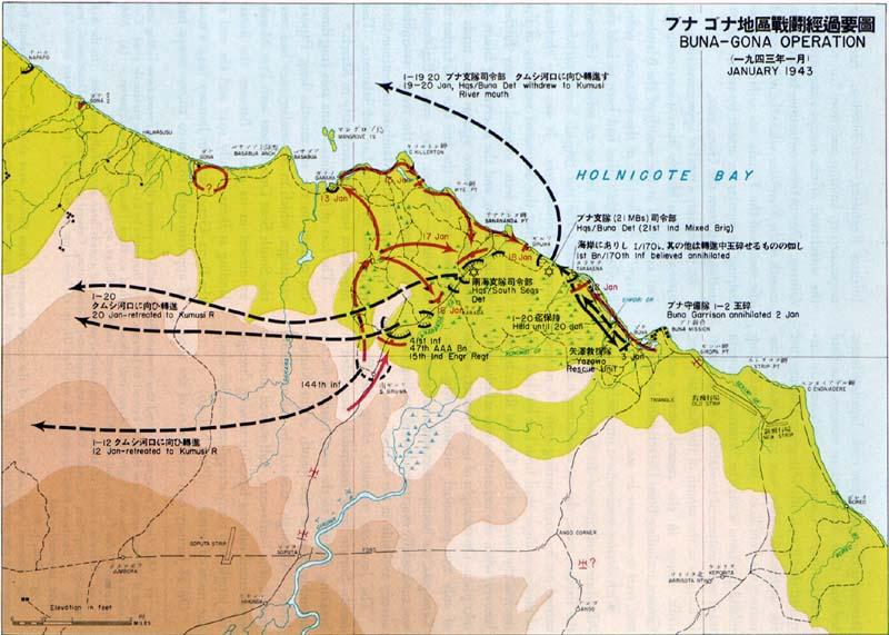 Japanese withdrawal Buna-Gona area, January 1943